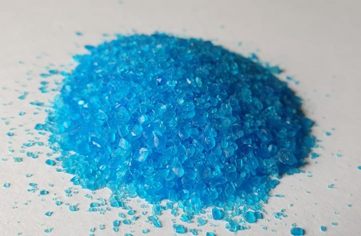 copper(ii) sulfate pentahydrate